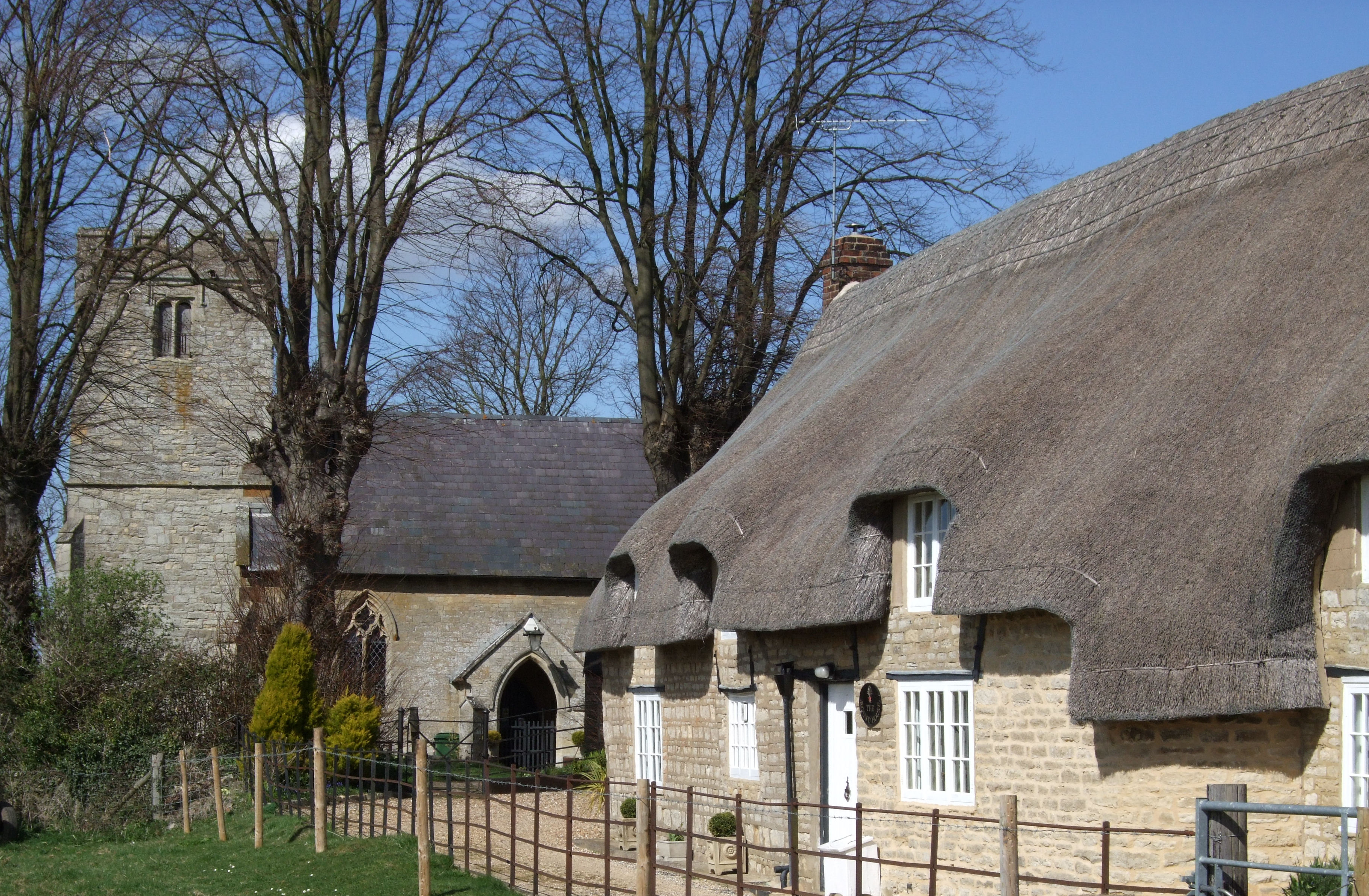 Church at Alderton, Northamptonshire